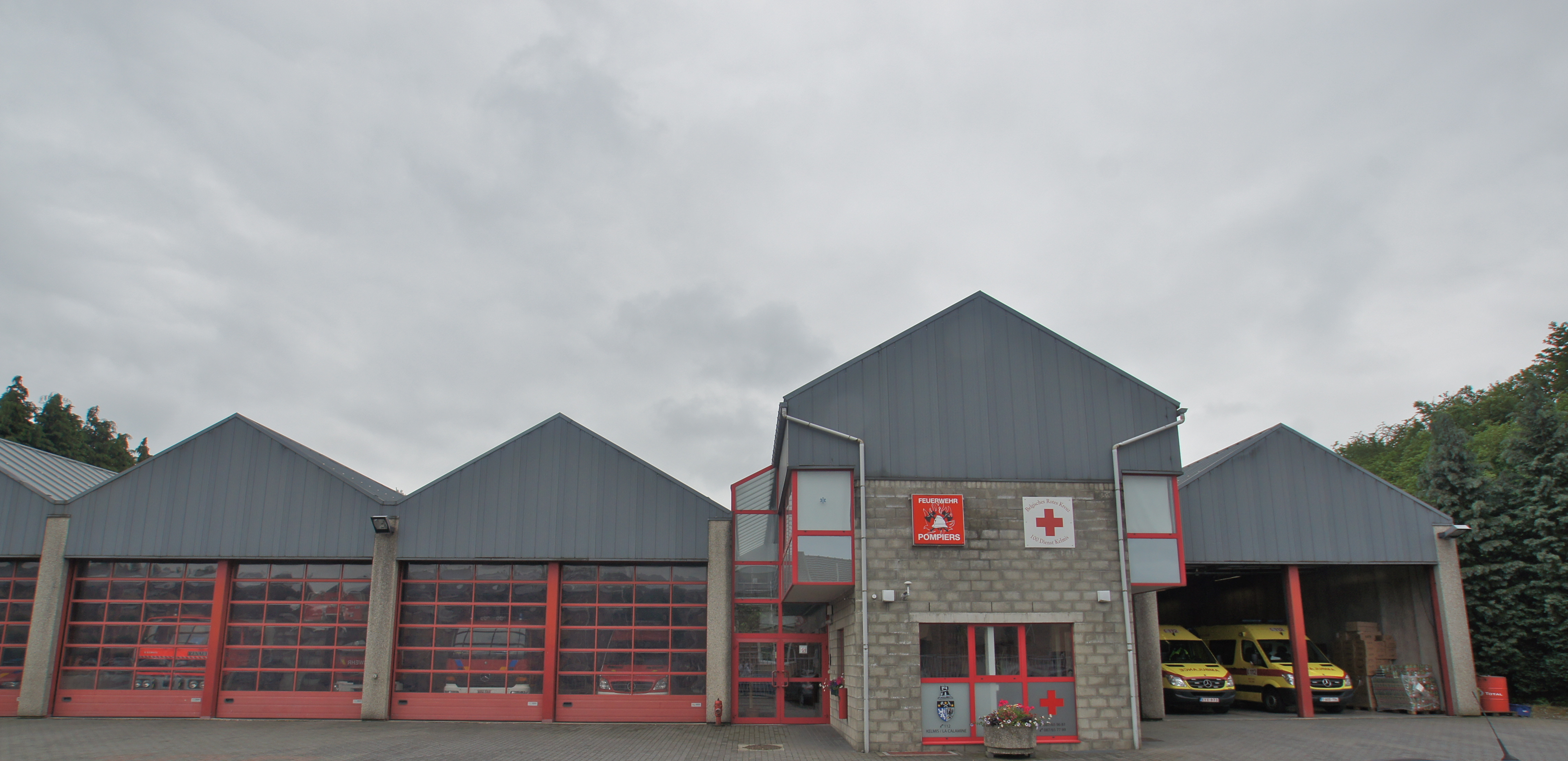 Kelmis (Neu-Moresnet), Belgium: Firehouse of volunteer firefighters